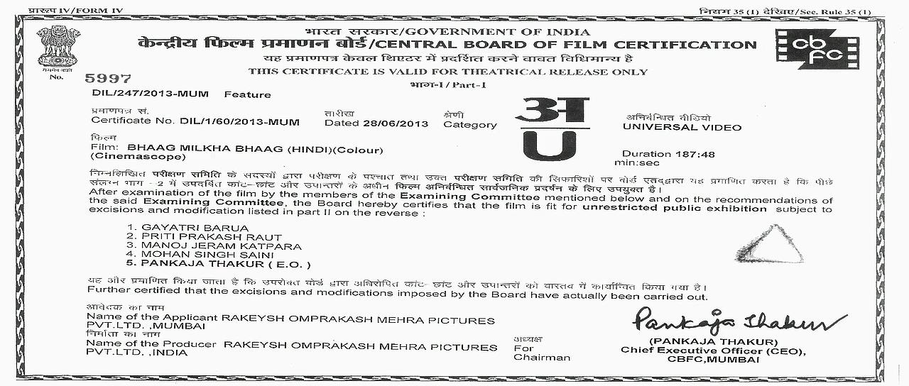 The censore certificate of the 2013 Indian film Bhaag Milkha Bhaag which being the subject of controversy after receiving an Universal certificate inspite containing adult sequences, violence and vulgarity. The image is the certificate.